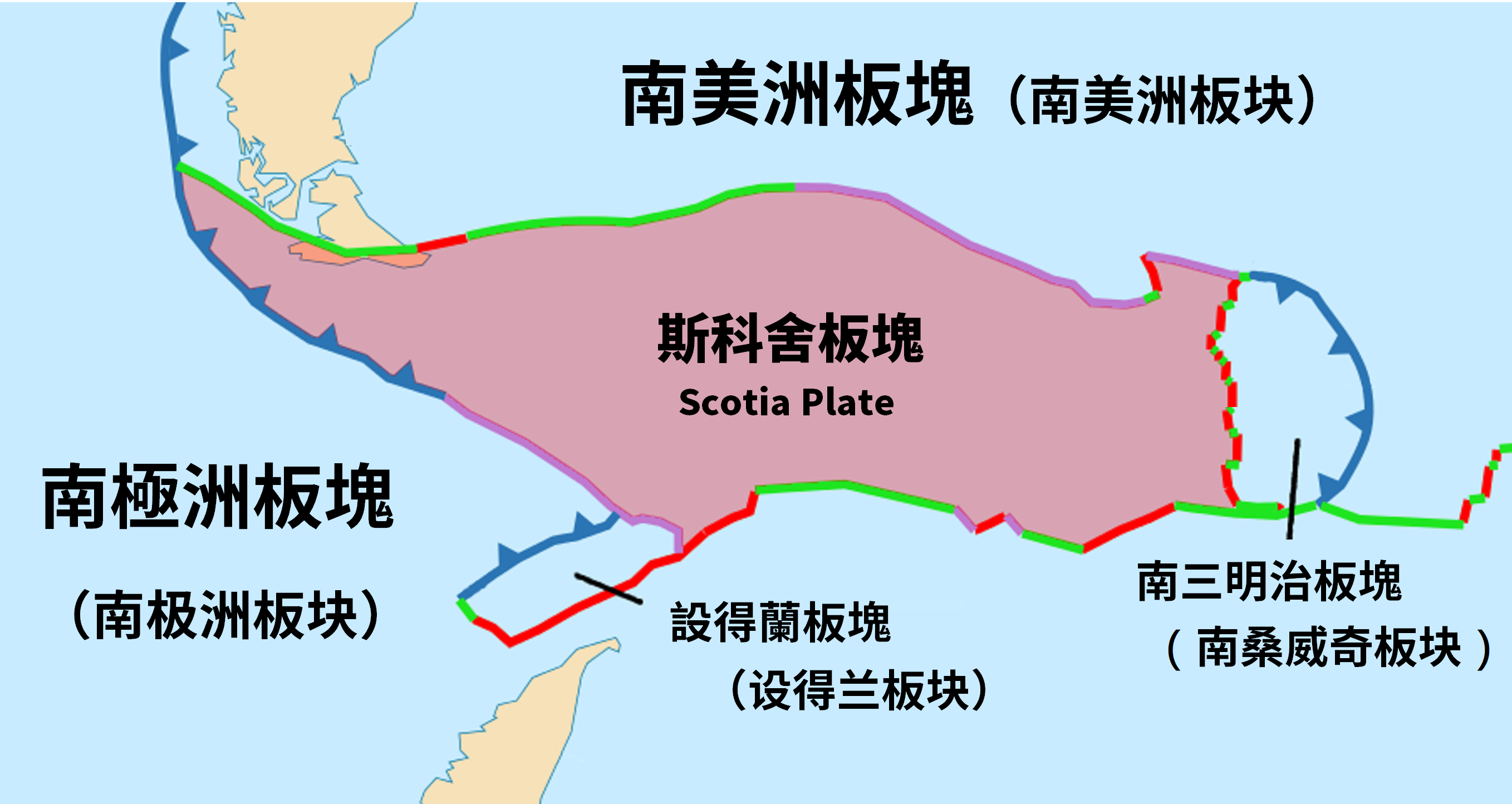 A map of the Scotia plate, in Chinese.